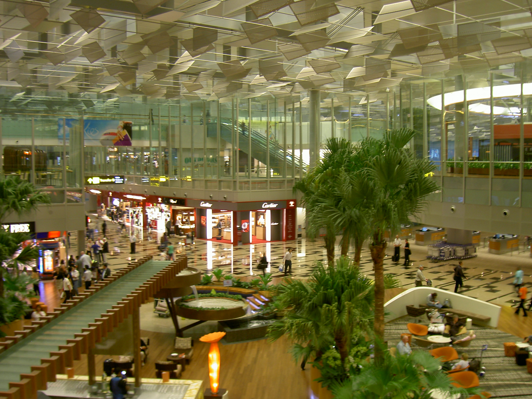 Inside the newly opened Terminal 3 at Singapore Changi International Airport.